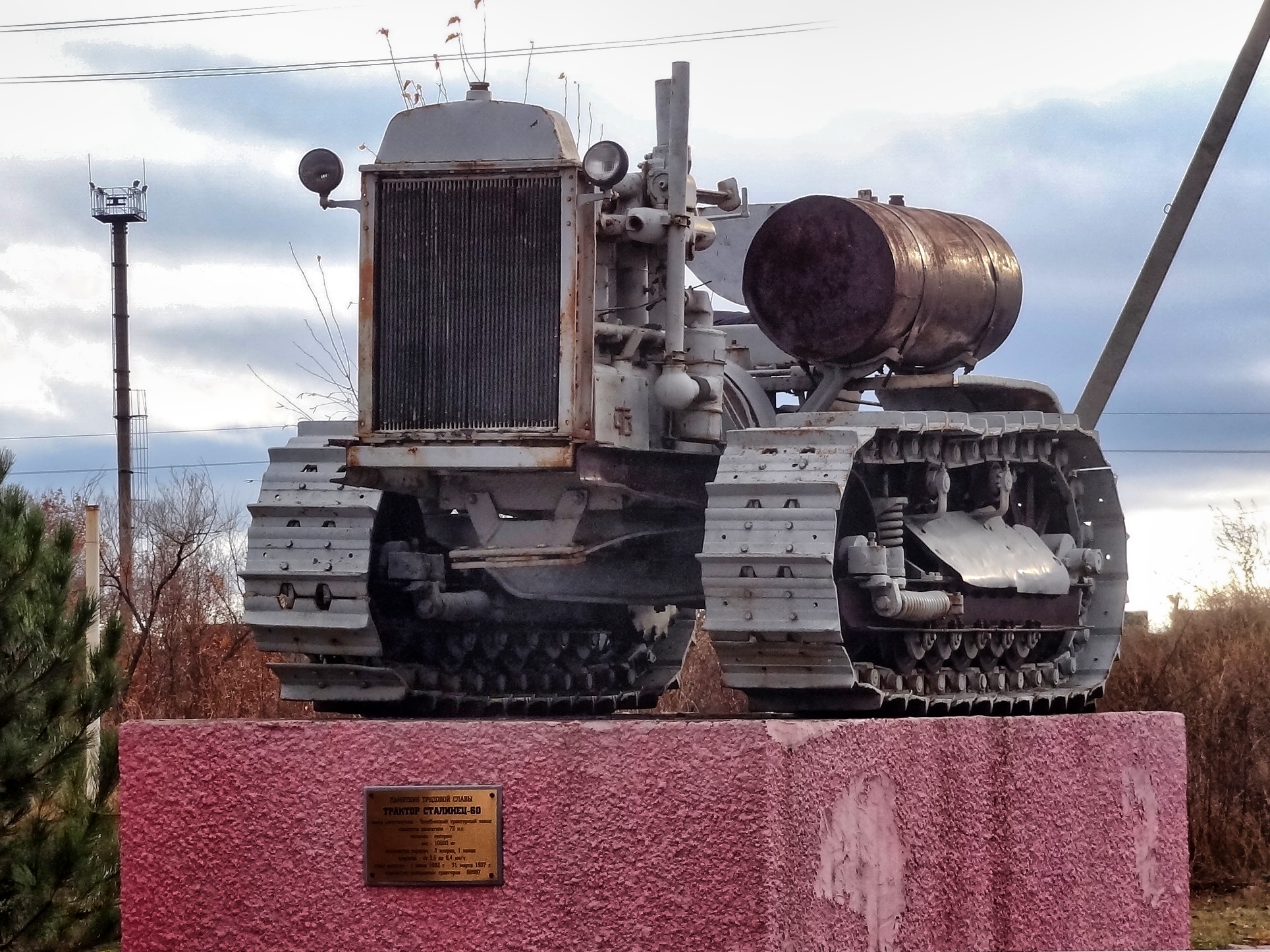 The Monument of Labor Glory "Tractor Stalinets-60" in the village of Inzhenerne, Polohy Raion, Zaporizhia Oblast, Ukraine.